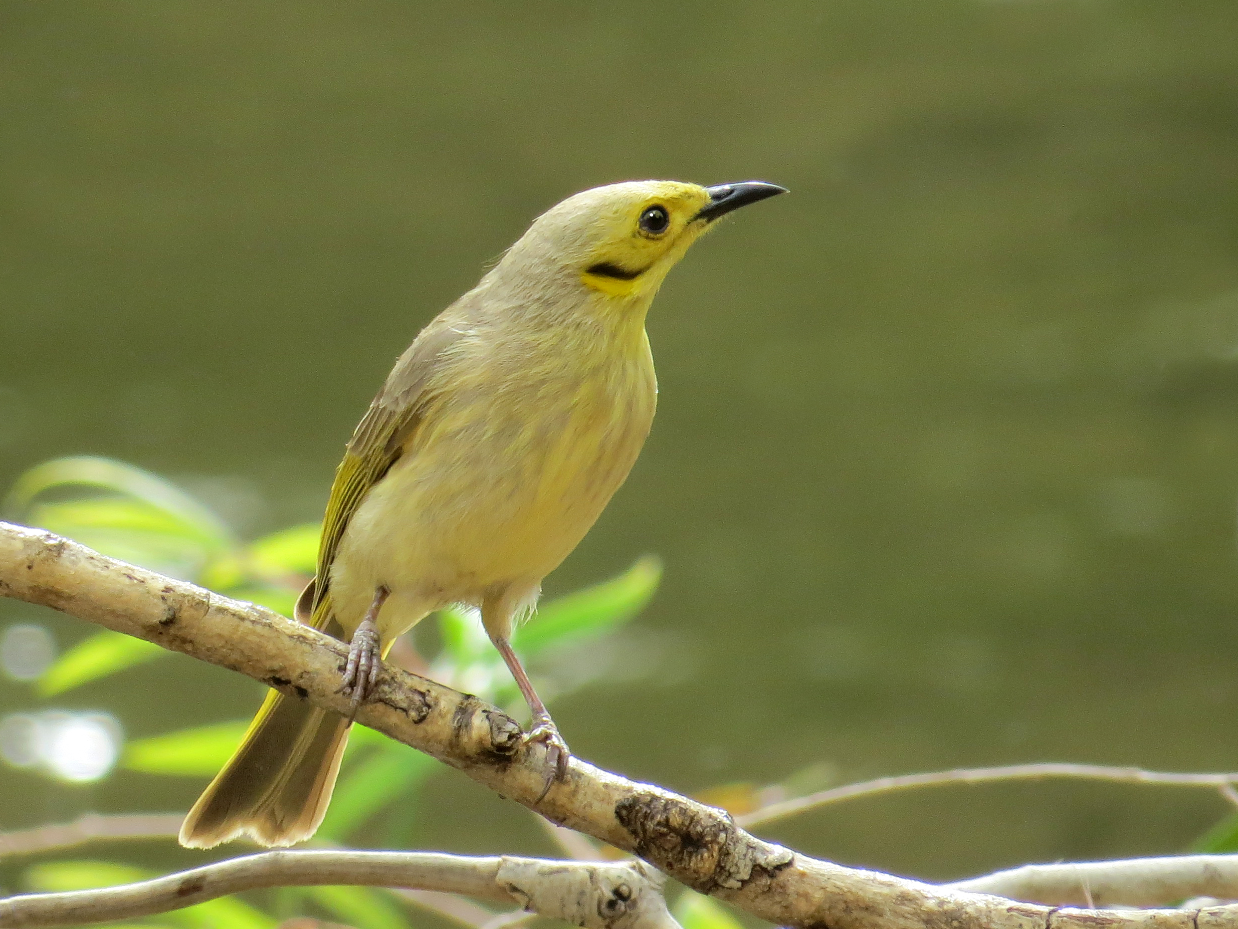 Yellow-tinted honeyeater (Ptilotula flavescens) at the Gregory River, north-west Queensland